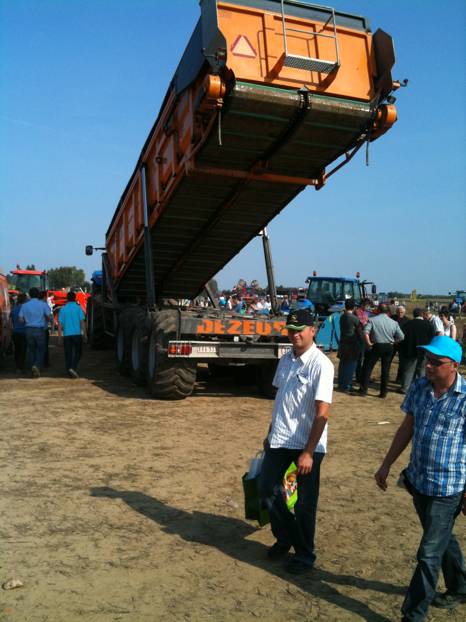 Dezeure trailer